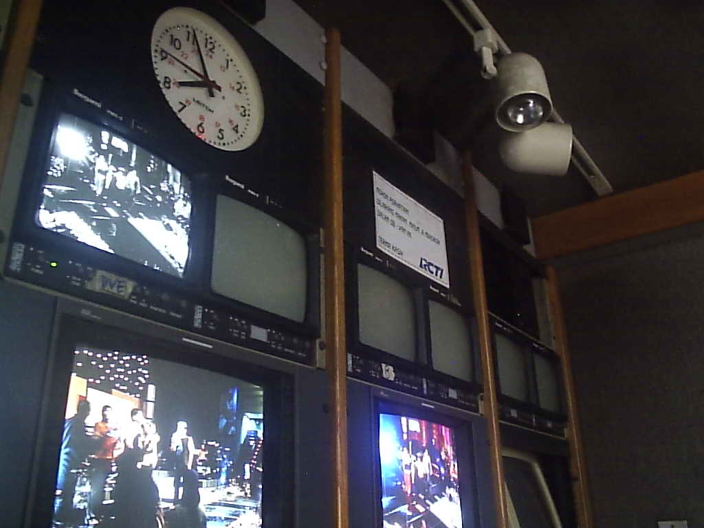 some monitors inside a TV OB (Outside Broadcast) Van